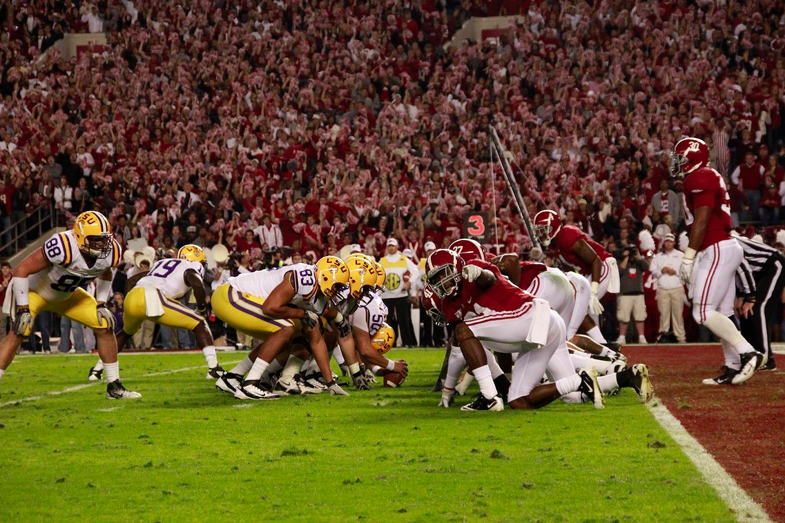 LSU looking to score a field goal in Bryant Denny Stadium vs Alabama on November 5th 2011.